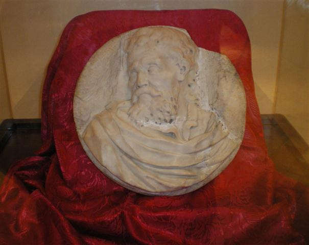 Self-portrait of Michelangelo on the exbition at the Museum of Caprese Michelangelo